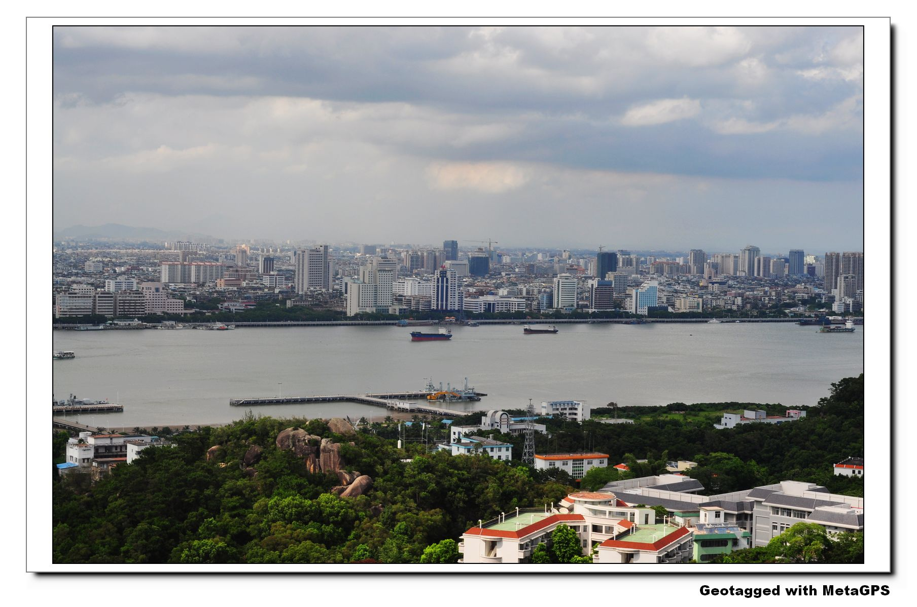 Skyline of Swatow from Kakchio 粵語: 喺礐石望汕頭